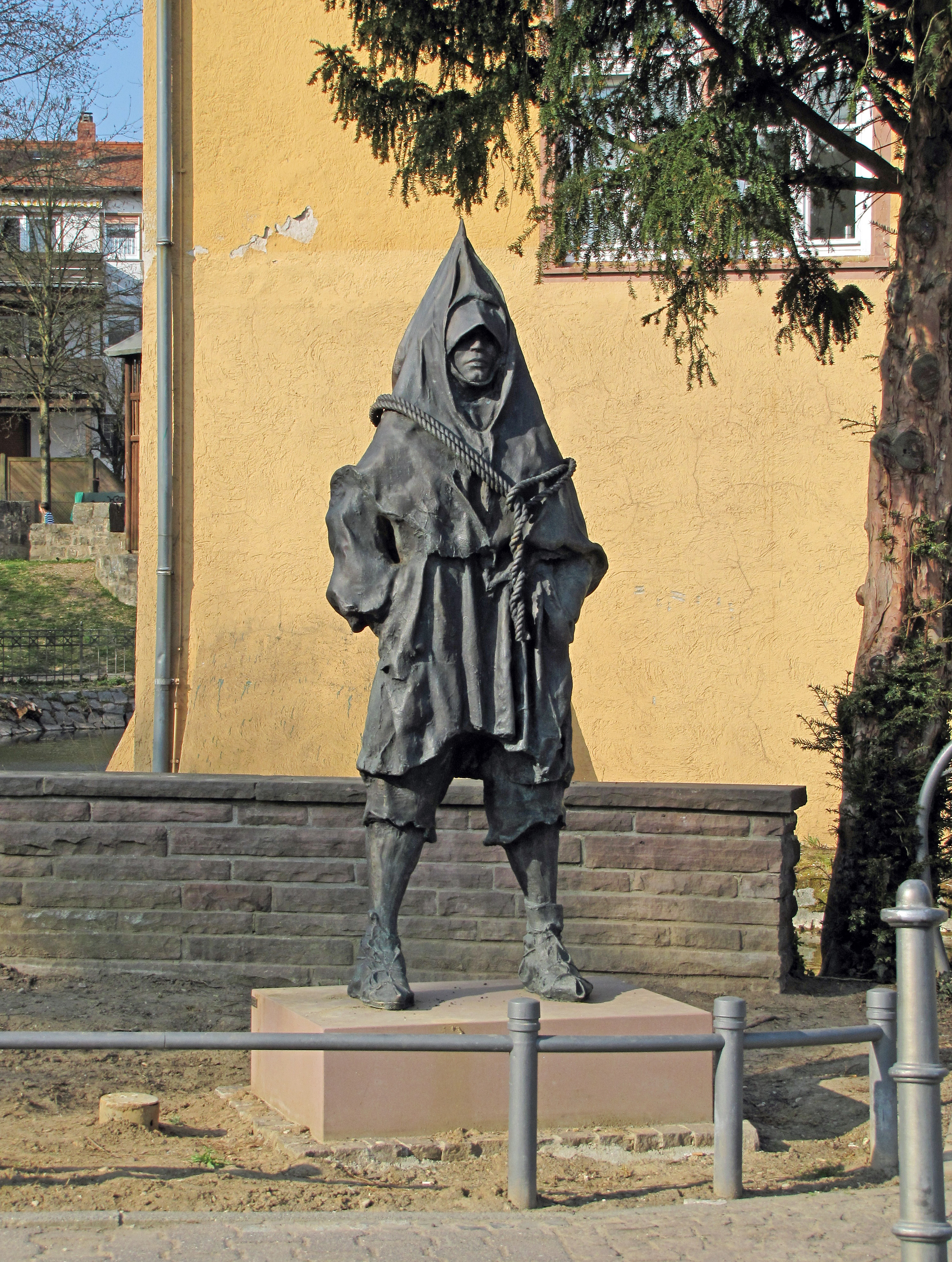 Statue of the "Schelm von Bergen" in front of "Schelmenburg", Frankfurt-Bergen, Germany.